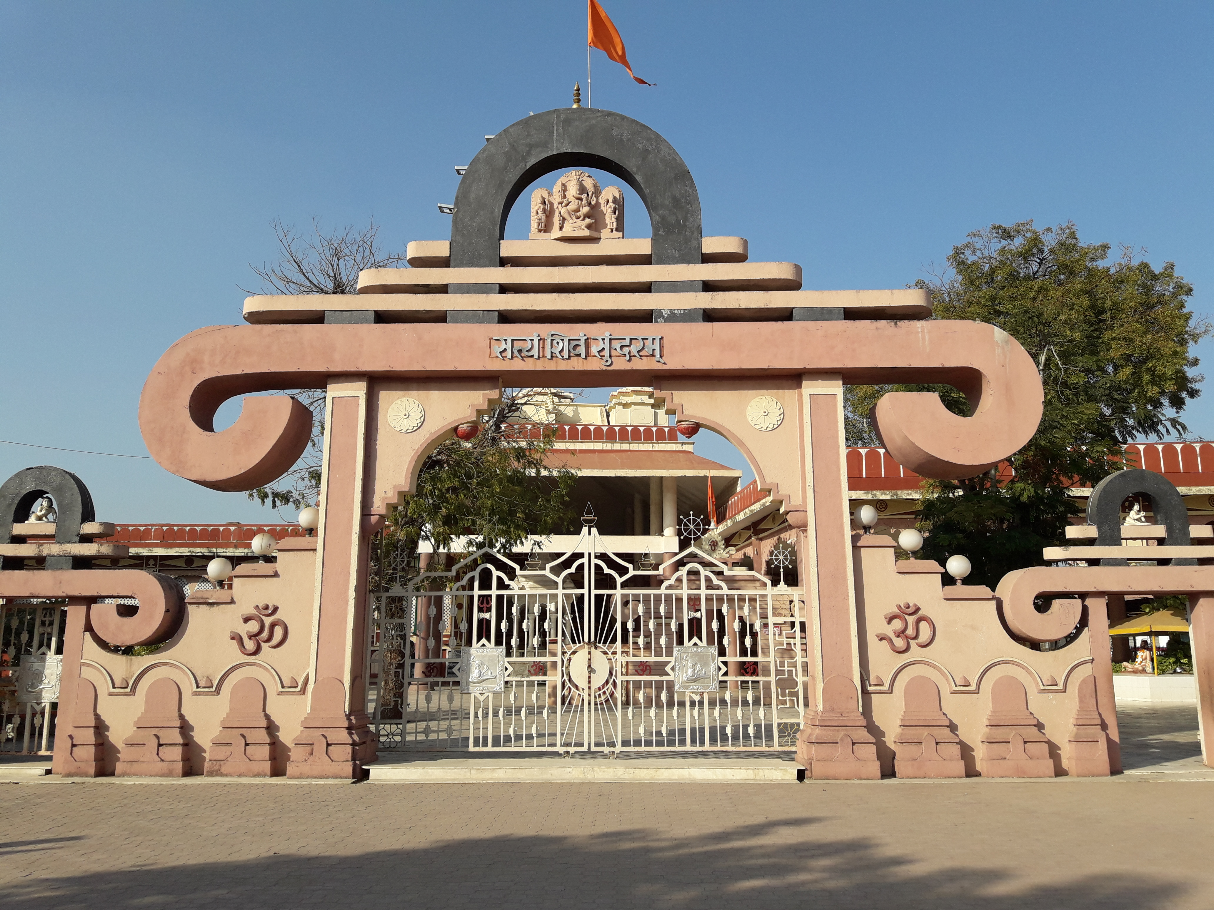 Bhimnath Mahadev Temple located at Savli, Gujarat, India.